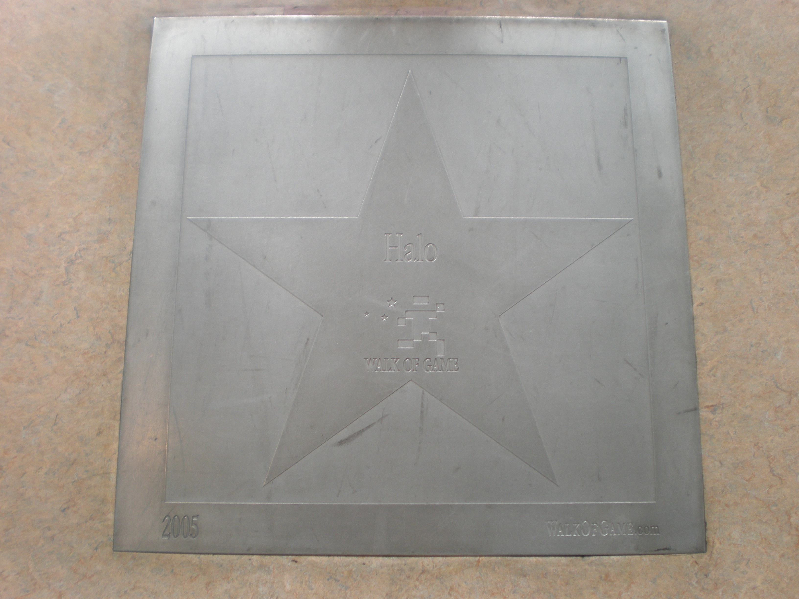 The star for Halo at the Walk of Game in the Metreon in San Francisco, California.